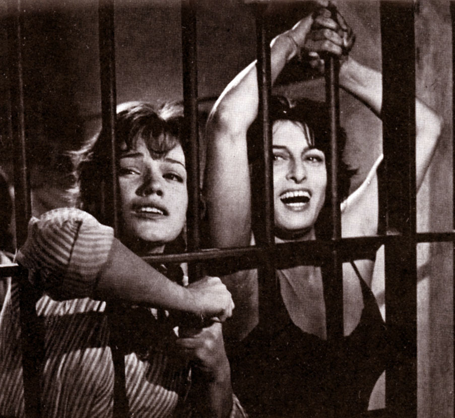 Cristina Gajoni and Anna Magnani in the film Nella città l'inferno (1959).